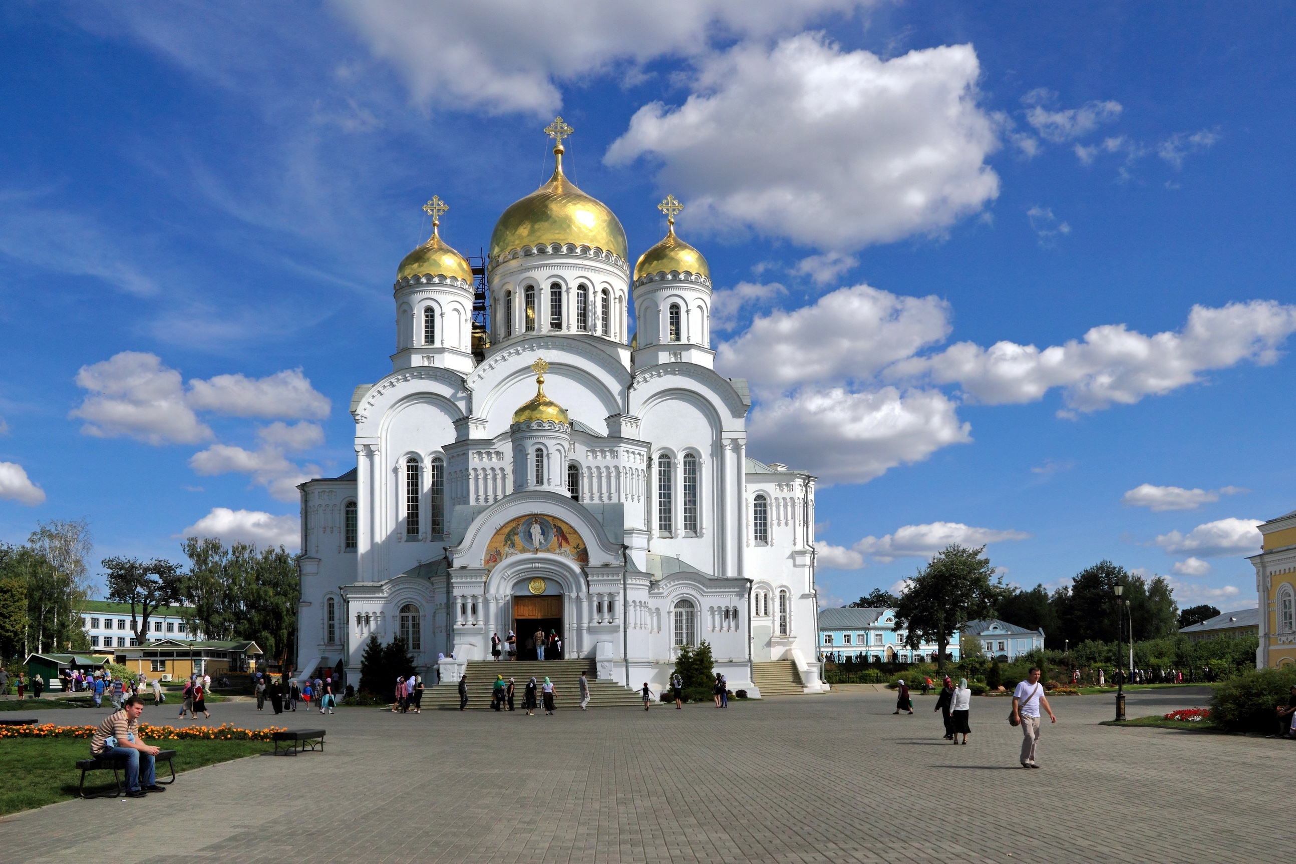 Diveyevo. Serafimo-Diveevsky Monastery. The Transfiguration Cathedral